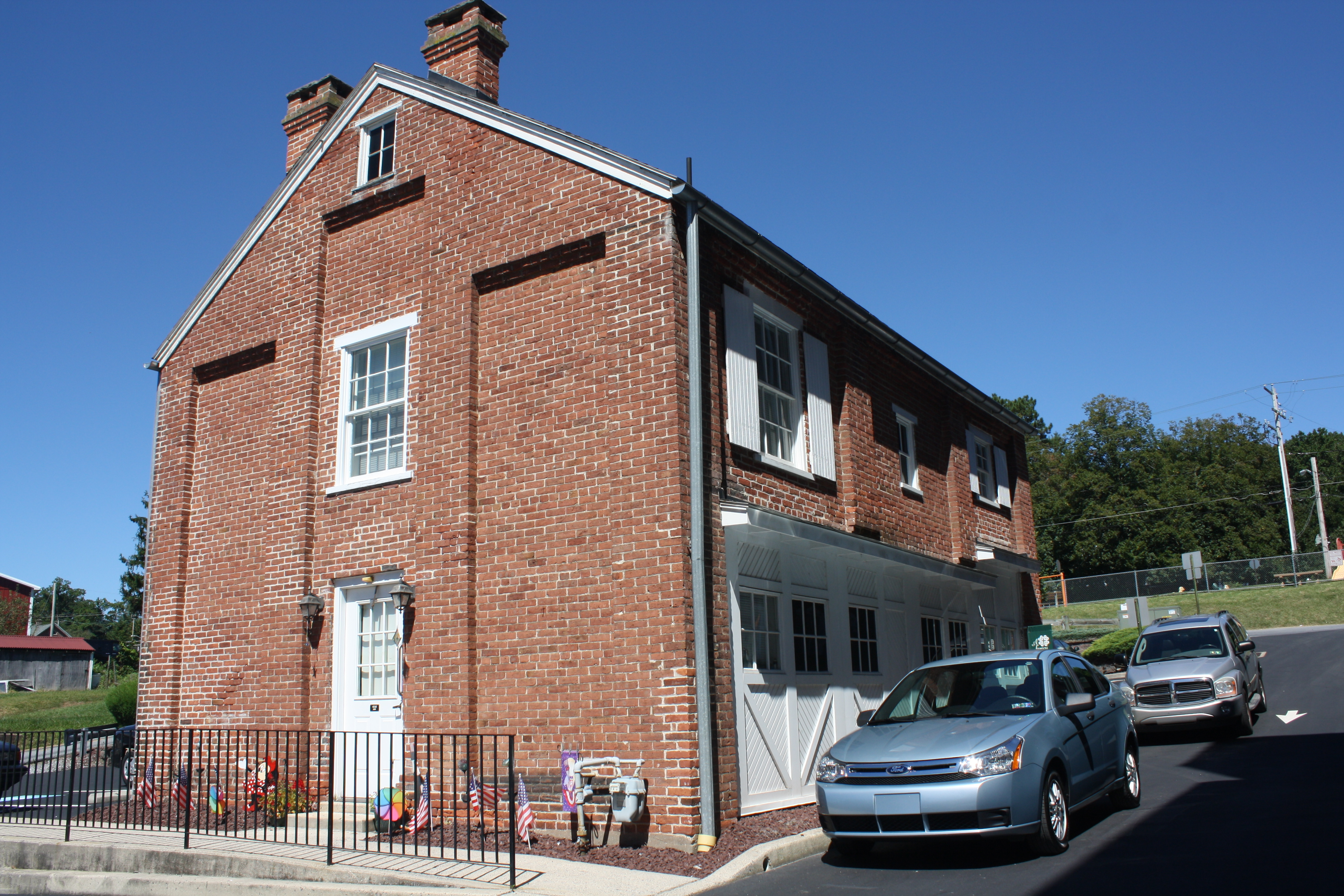 John F. Lutz Furniture Co. & Funerary is a historic building complex located at St. Lawrence, Berks County, Pennsylvania. Brick Carriage House (1896).